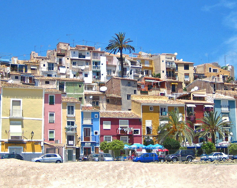 Photo of Vila-Joiosa, county Marina Baixa, Region of Valencia, Spain.